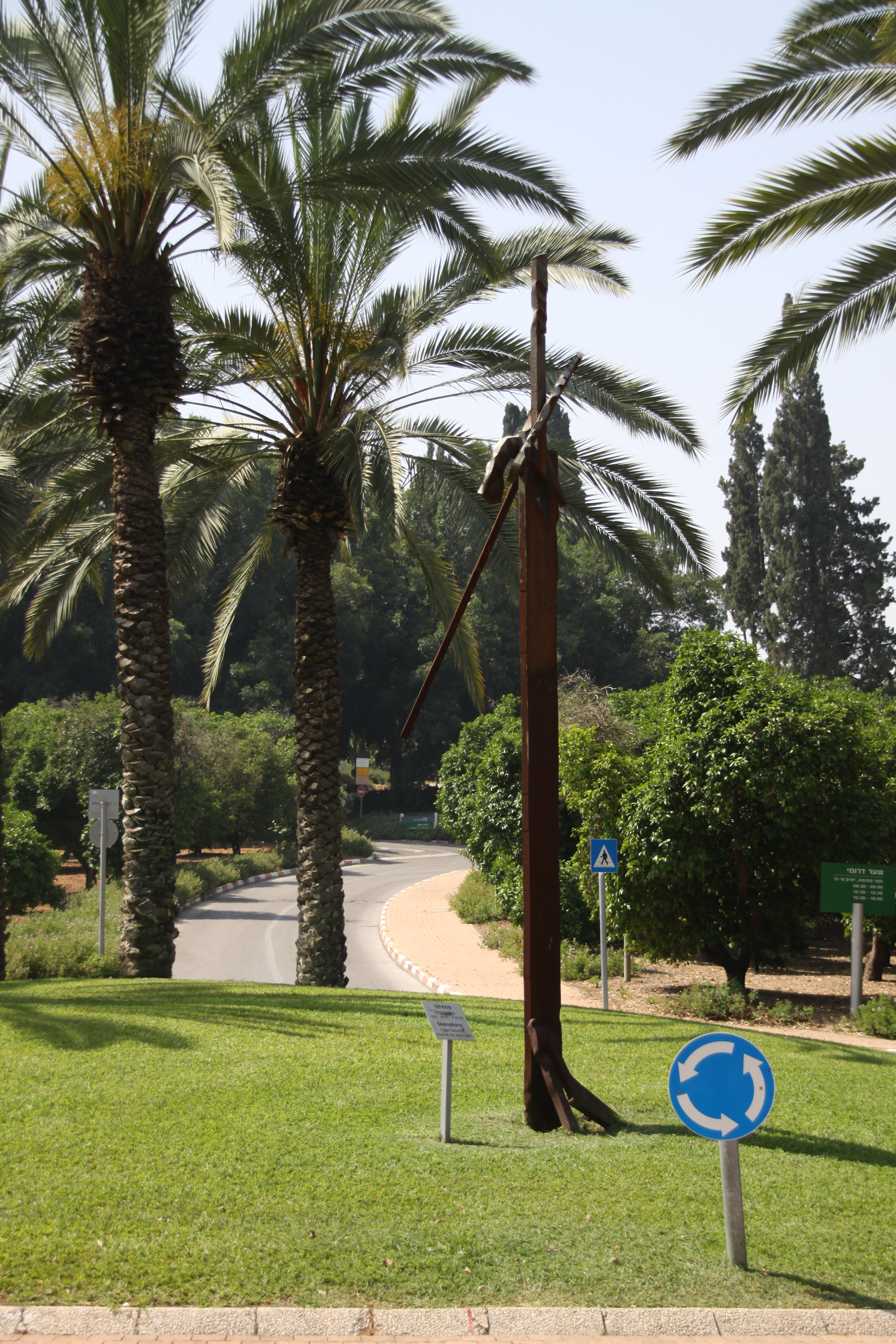 Semaphore (1993) - Igael Tumarkin.